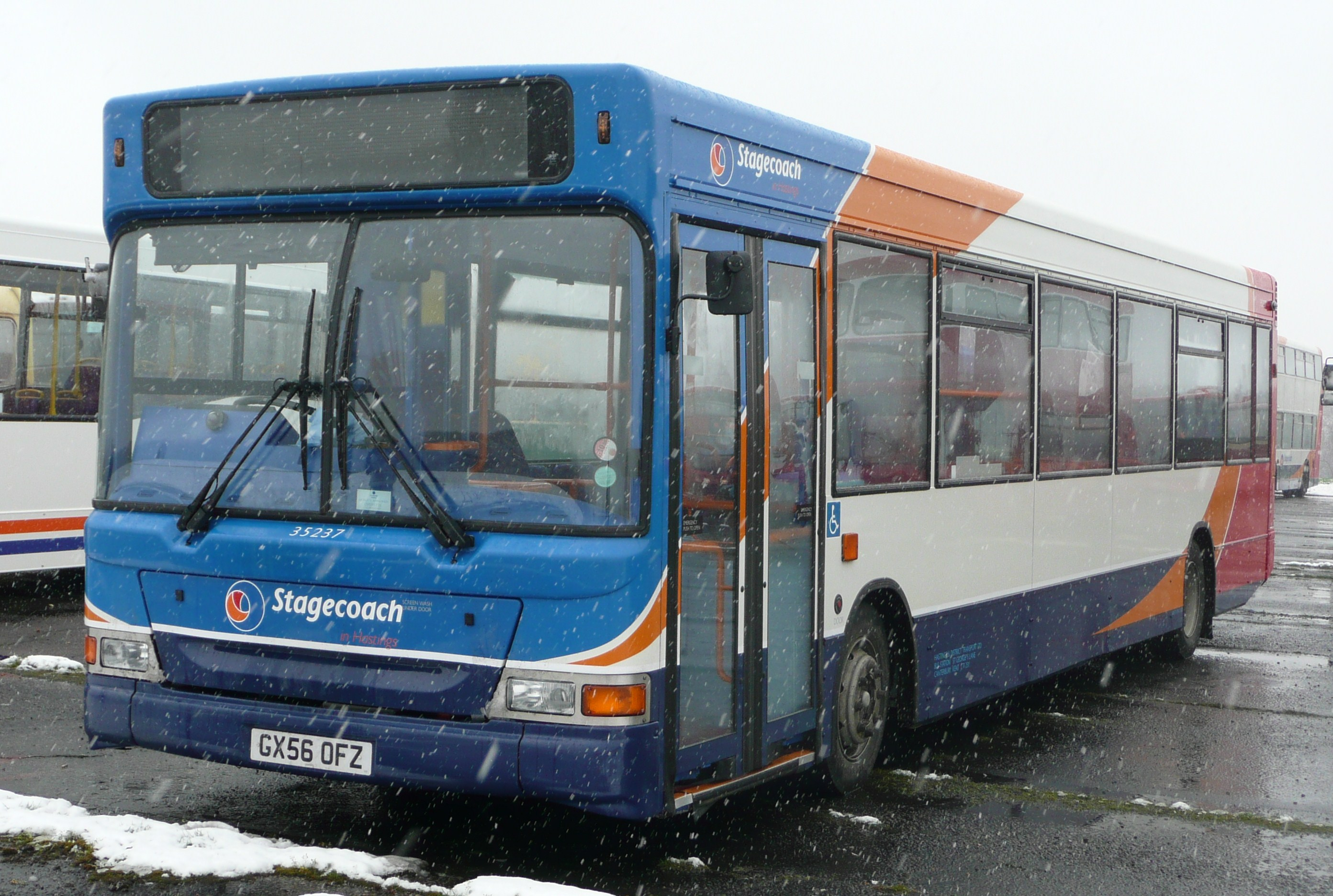 A Stagecoach South East Dennis Dart SLF, 35237 GX56OFZ